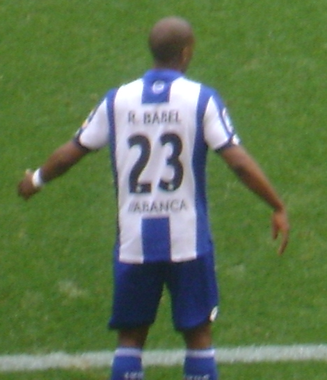 Ryan Babel